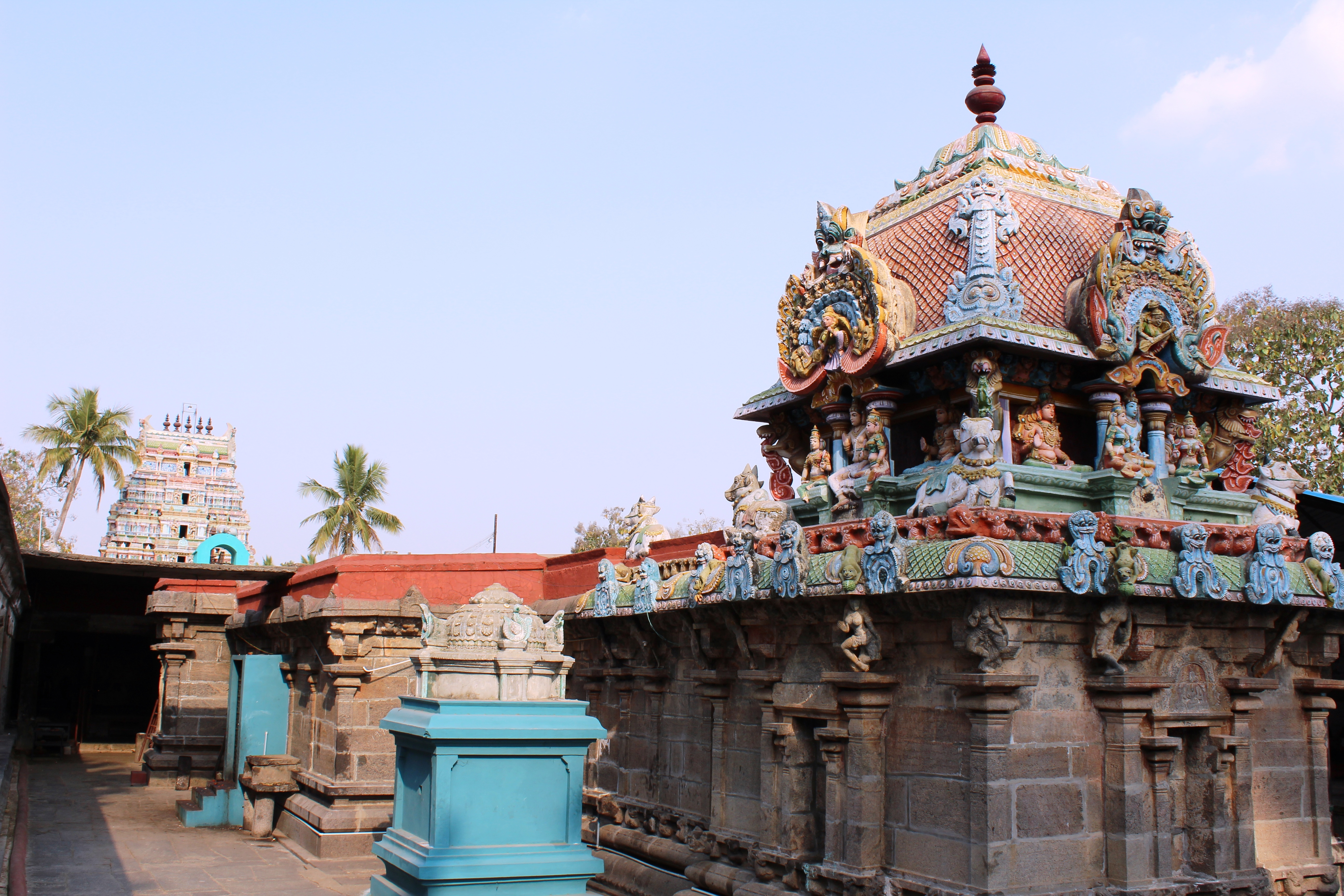 Thirunavalur temple